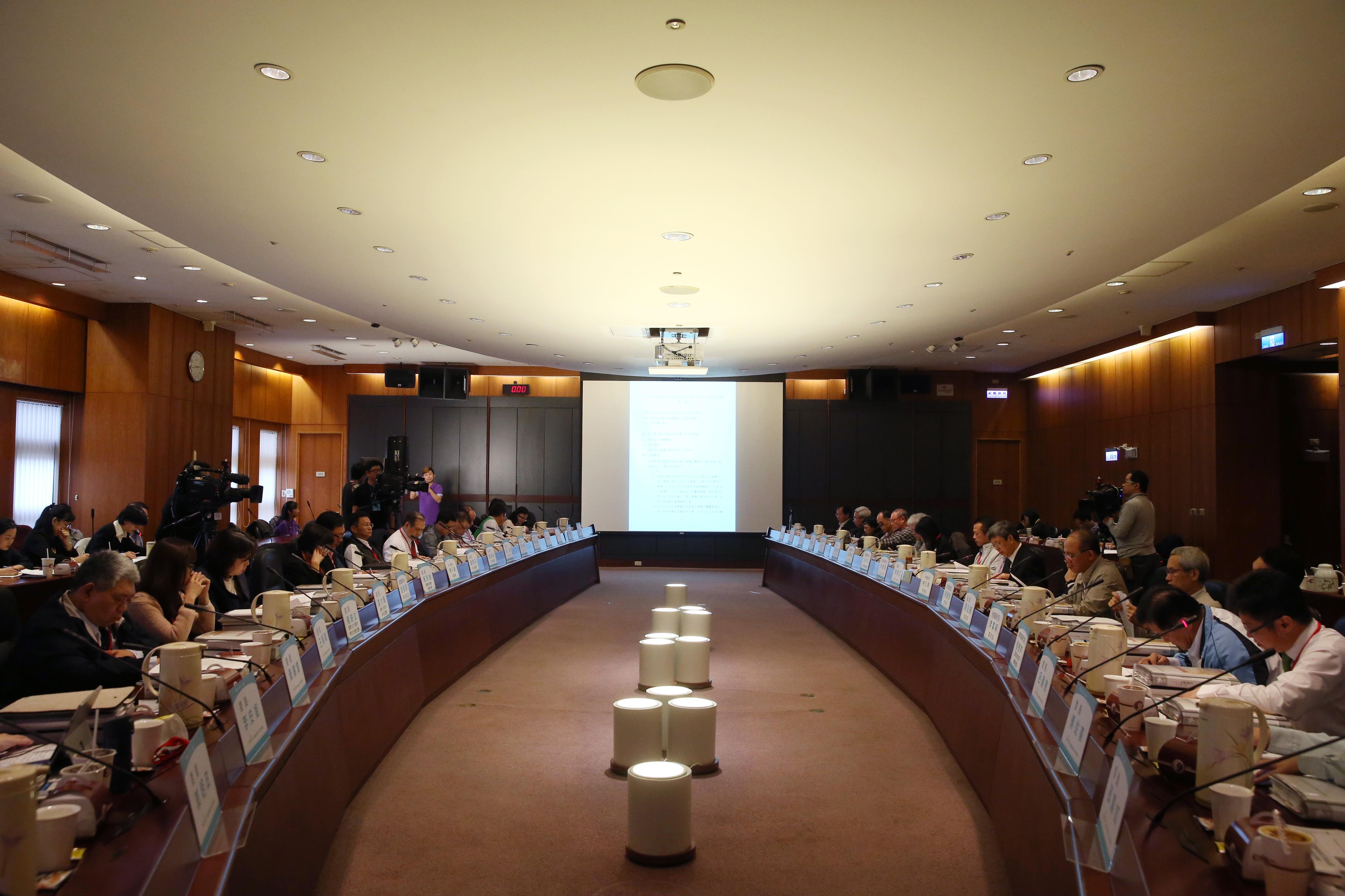 授權方式及範圍：中華民國總統府│政府網站資料開放宣告 Authorization Method & Scope: Office of the President, Republic of China (Taiwan) | Government Website Open Information Announcement